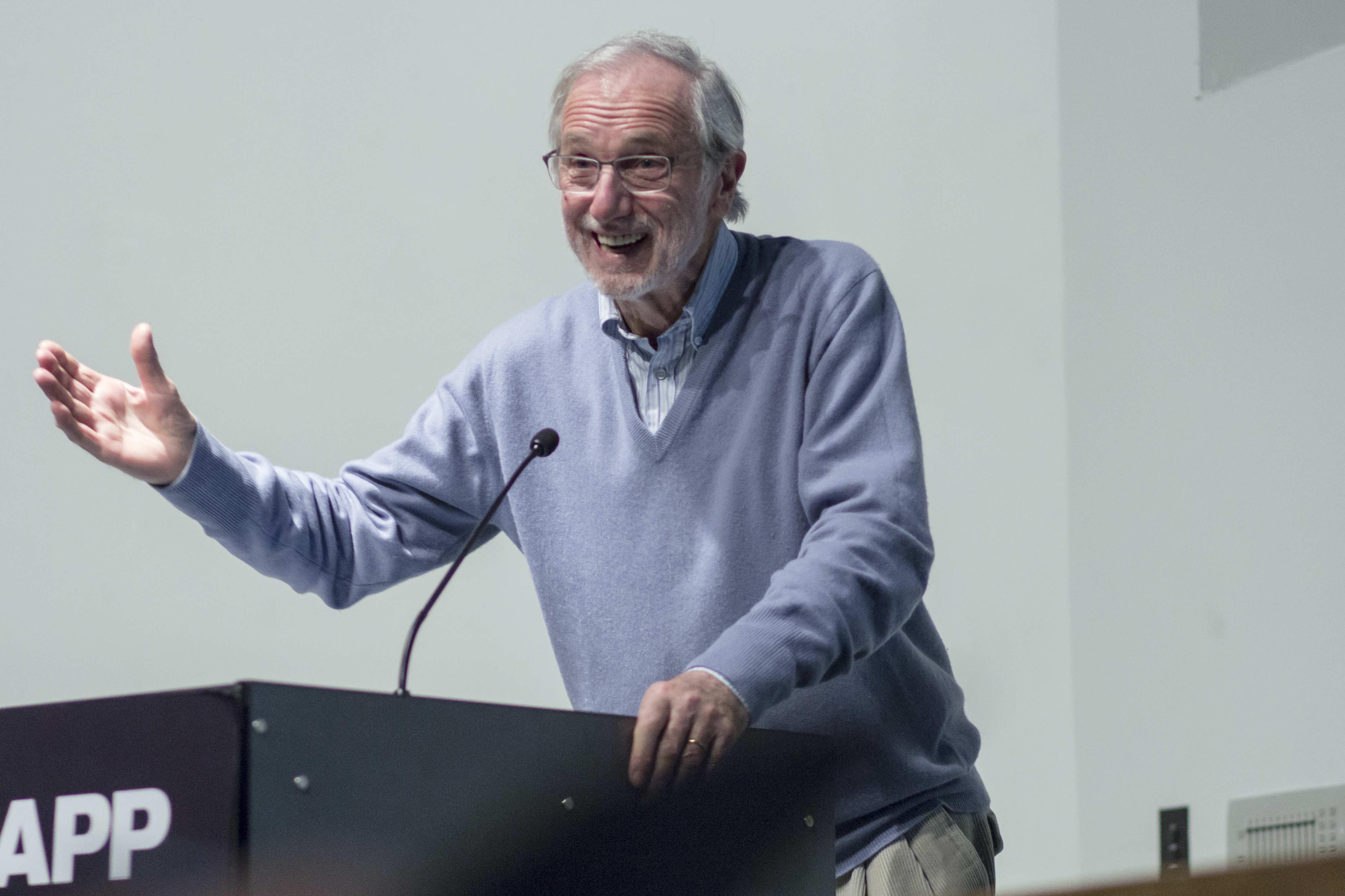 Celebrated architect Renzo Piano presents work by Genoa, Paris, and New York-based Renzo Piano Building Workshop — a client roster that includes the Chicago Art Institute, the Morgan Library and Museum, the New York Times, the Whitney Museum, and Columbia University. Once completed, the university's 17-acre and 6.8 million square-foot Manhattanville campus will retain the existing street grid, improve pedestrian access, enhance waterfront views, introduce open space to the public, and provide new homes for the Jerome L. Greene Science Center, the School of the Arts, Columbia Business School, the School of International Public Affairs, an academic conference center, and more. Response by Dean Amale Andraos and Nicolai Ouroussoff. Sponsored by the Ornamental Metal Institute of New York.